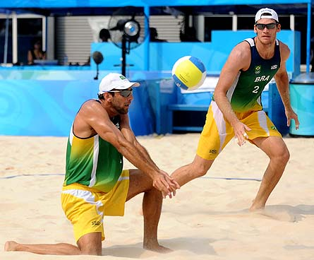 Beach Voleyball players Márcio Araújo and Fábio Luiz Magalhães playing at the 2008 Summer Olympic Games in Beijing.